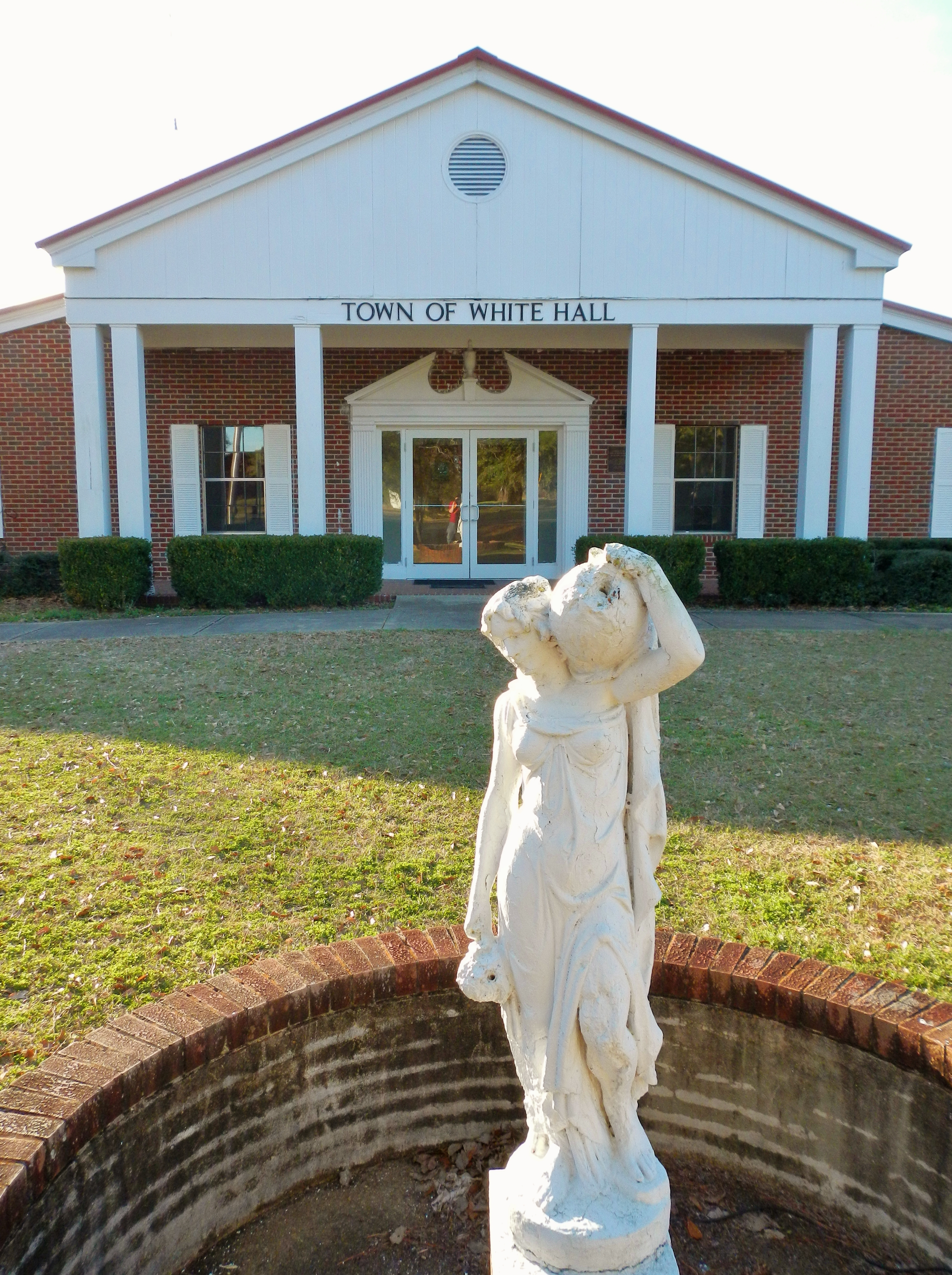 This is a photograph of the town hall in White Hall, Alabama.